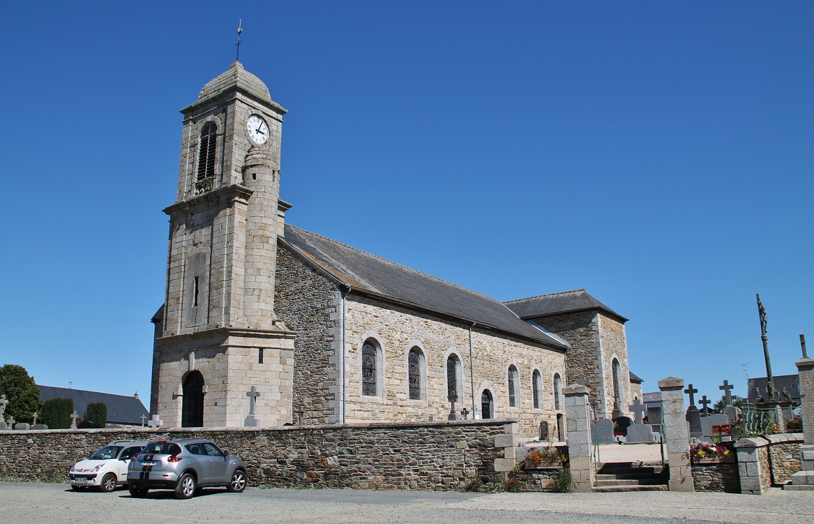 église St Pierre